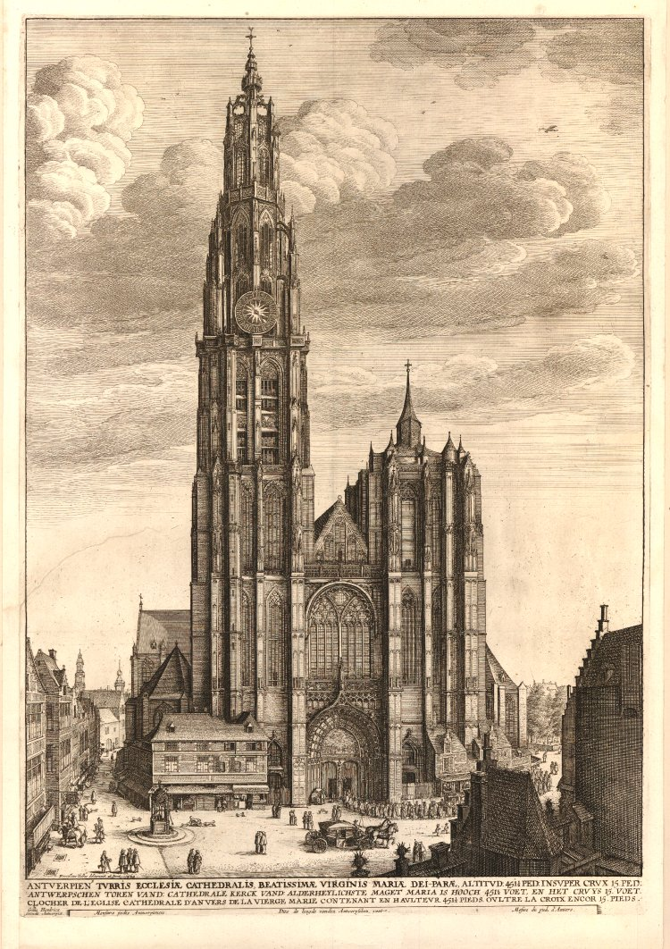 View of the west end of Antwerp Cathedral ("Prospectvs Tvrris Ecclesiæ Cathedralis"), etching, by the Czech-British artist and printmaker Wenceslaus Hollar. 482 mm x 337 mm. Courtesy of the British Museum, London.